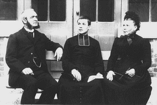 A young Father Daniel Brottier (beatified in 1984) with his parents, posing for a photograph before heading out as a missionary to Senegal (see link here for a reference to this photograph